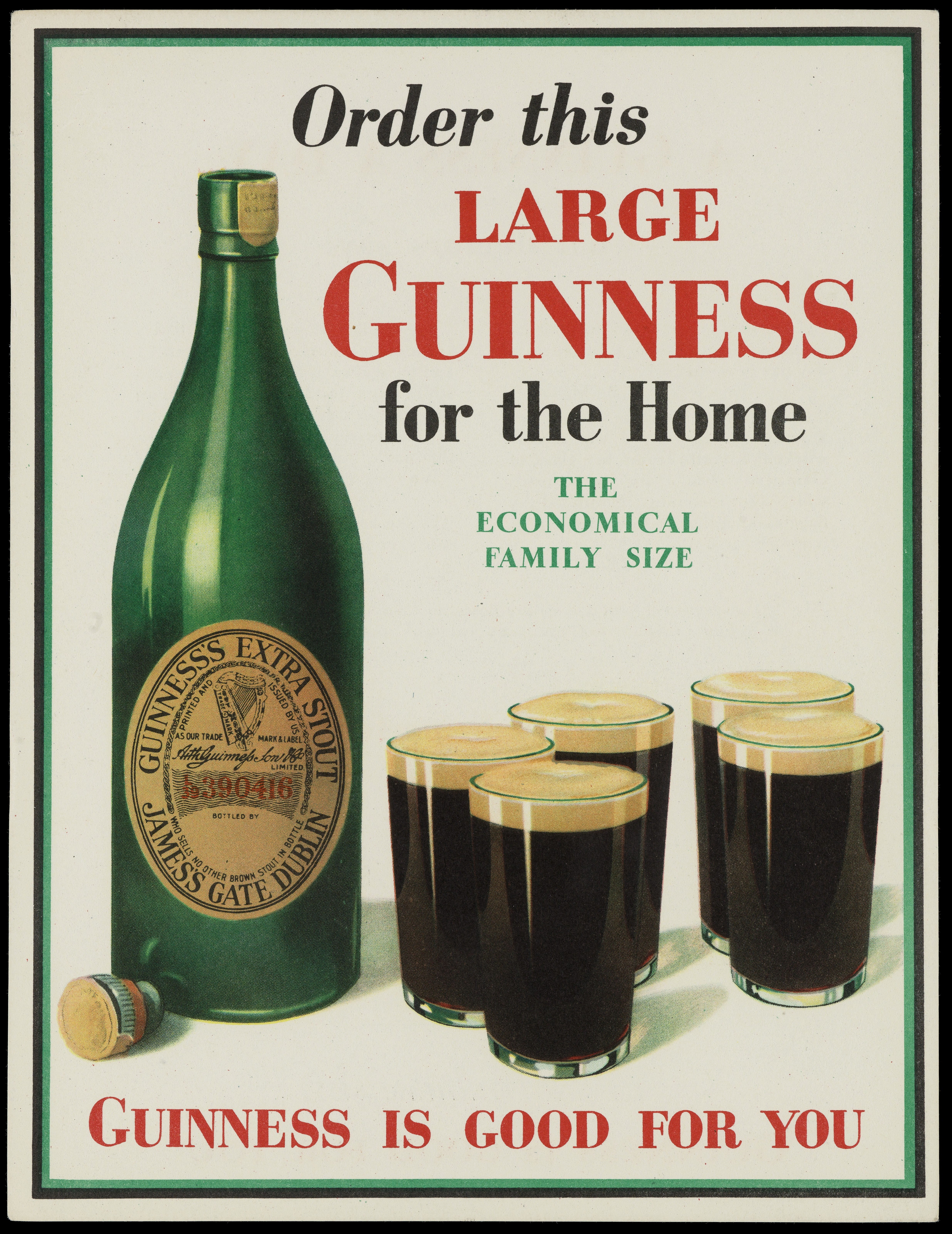 Order this large Guinness for the home : the large economical family size : Guinness is good for you. General Collections Keywords: Guinness.